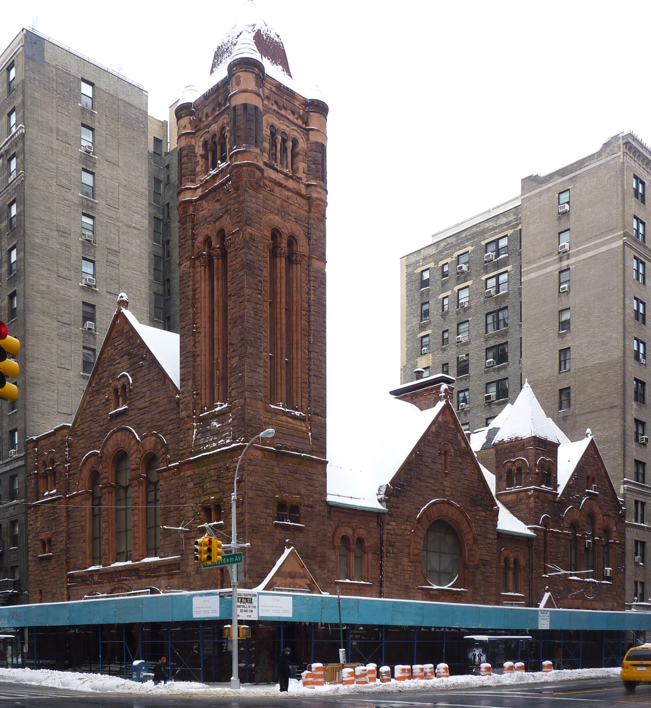 Looking northeast across 86th St and Amsterdam Av at the West-Park Presbyterian Church (1889), Upper West Side, designed by Henry F. Kilburn.